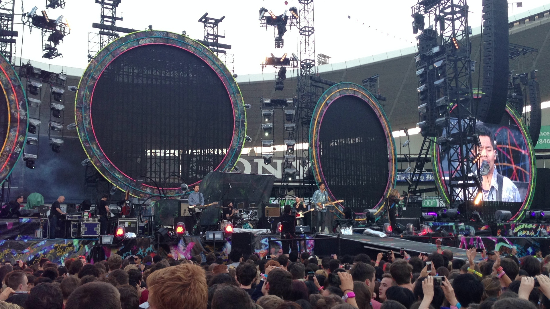 The Temper Trap performing as opening act on Coldplay's Mylo Xyloto Tour, at the Sydney Football Stadium in Sydney, New South Wales.